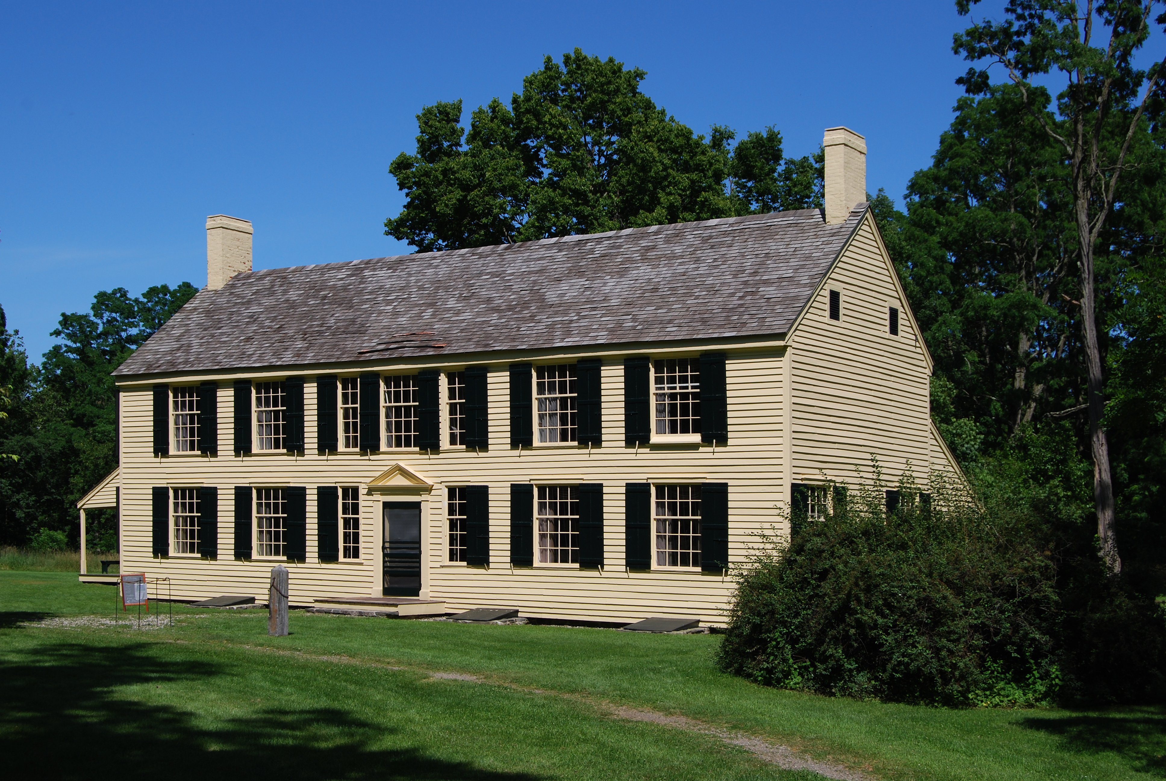 House of Major General of the Continental Army Philip Schuyler, part of the Saratoga National Historic Park